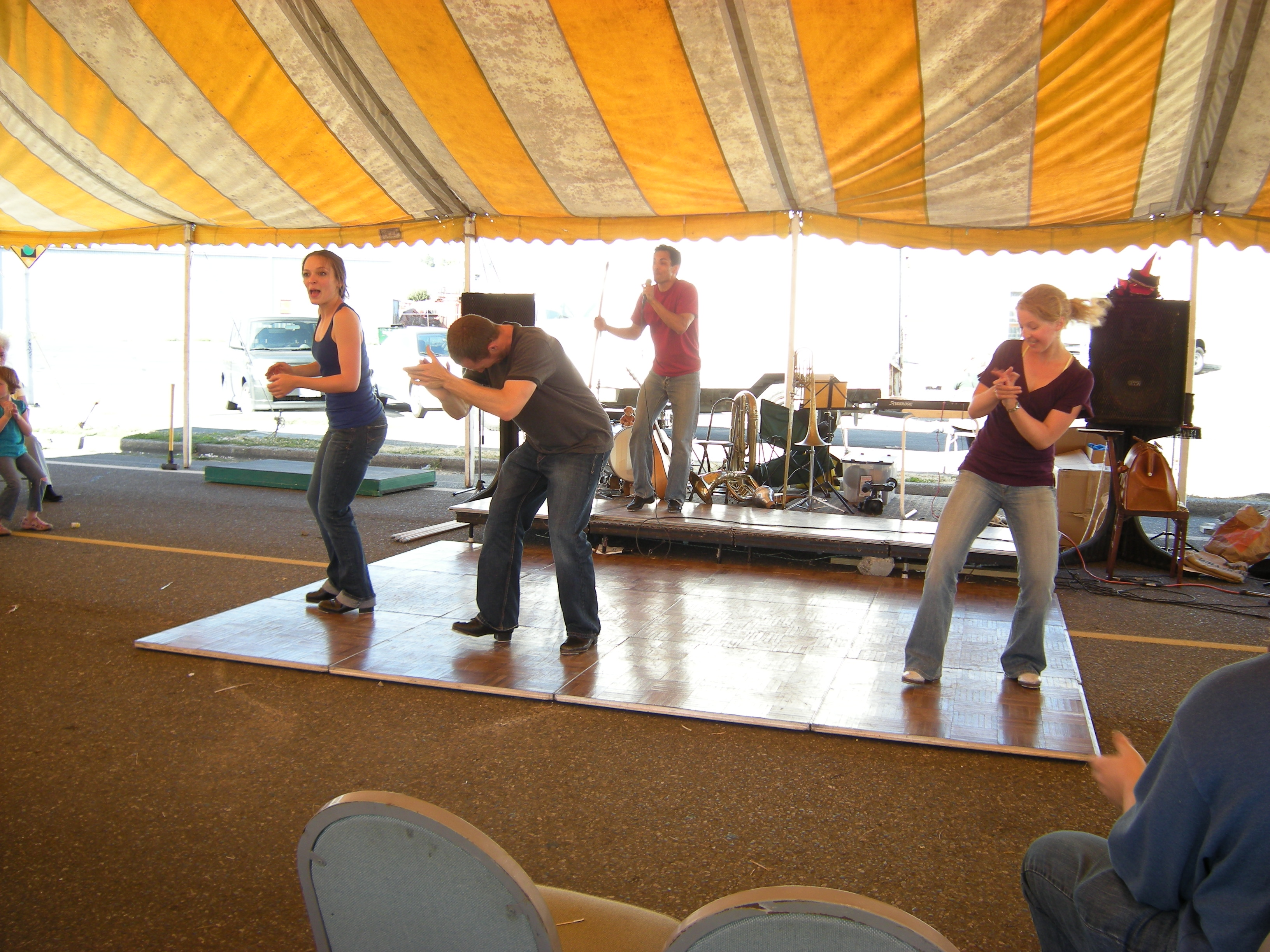 Mark Mendonca's UPBEAT! (tap dance and percussion performers) at 2008 White Center Jubilee Days, White Center, Washington. Mendonca [That is probably properly "Mendonça", but he apparently has dropped the cedilla.] himself is in the rear; I believe the woman at left is named Melissa Farrar; I don't know the other performers' names, though the woman on the right may be Jesse Sawyers, who is definitely a Seattle-based tap dancer.